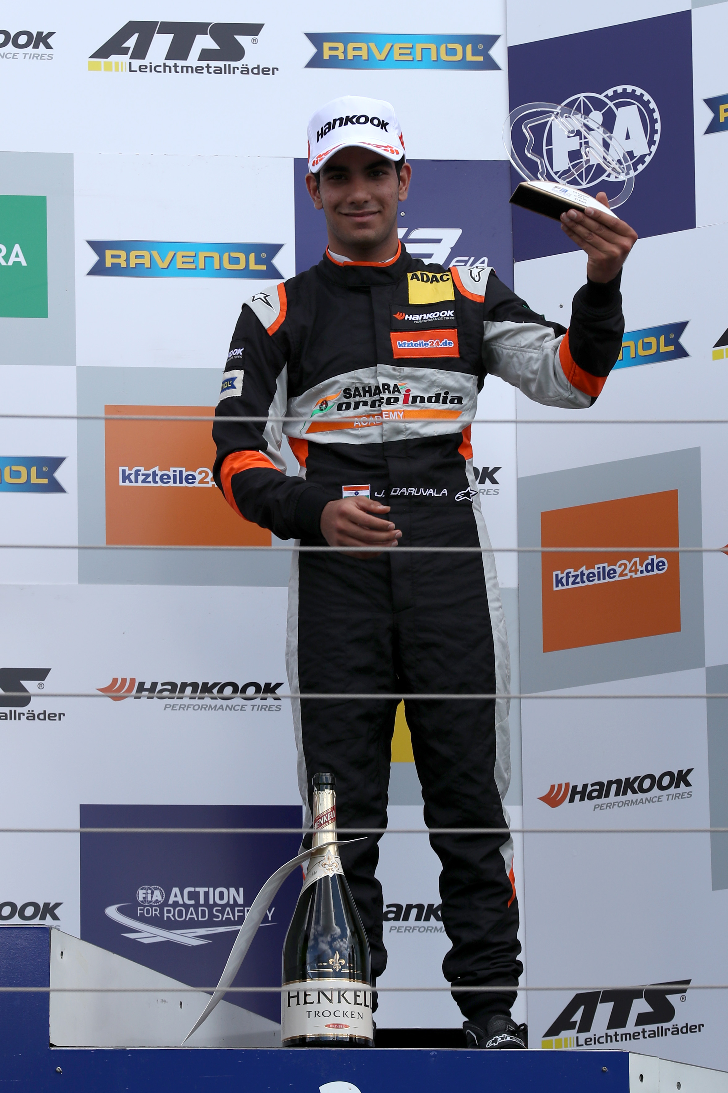 Winning Best Rookie at the Hungaroring circuit